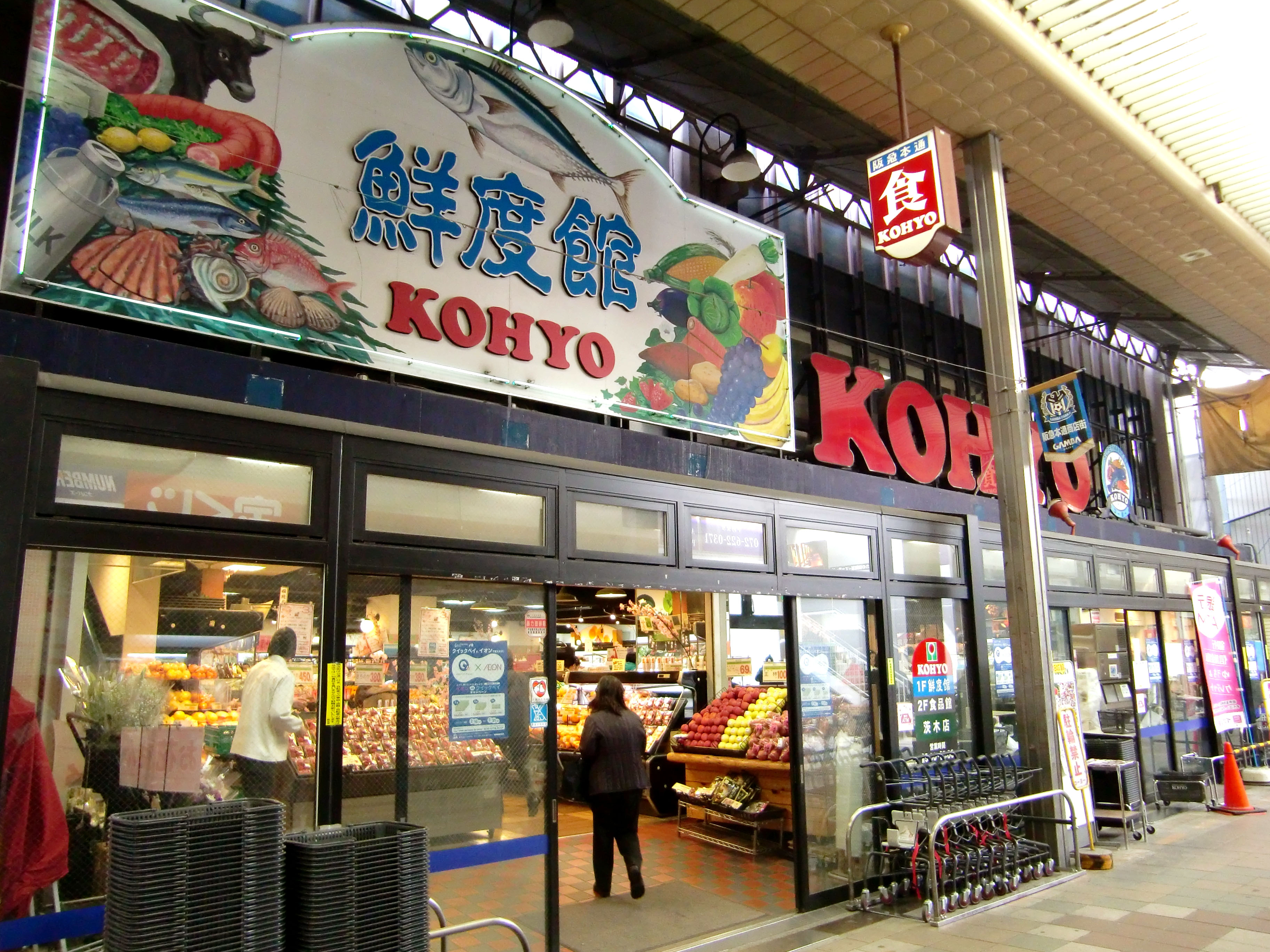 KOHYO Ibaraki,3-28 Betsuincho Ibaraki-city Osaka Japan.